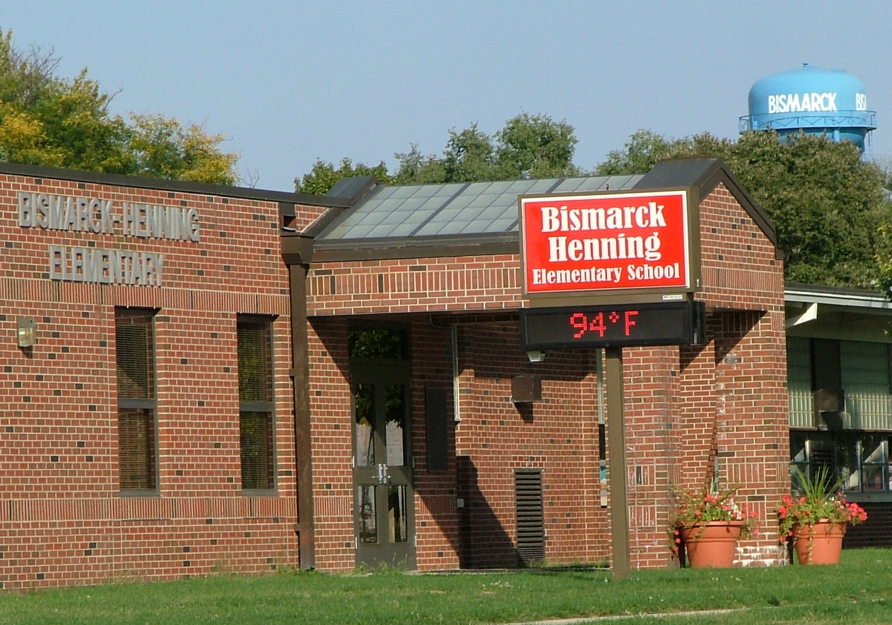 Bismarck-Henning elementary school, with the town water tower in the background